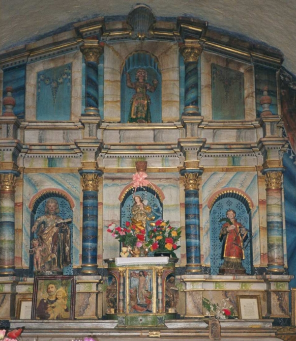 Neoclassic style main altarpiece in the Rosales church (Riello, Spain), with statues of the patron Virgin, Saint Matthew, Saint Lawrence and the Child Jesus.